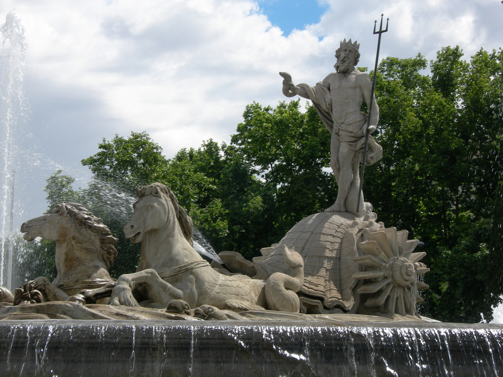 Fountain of Neptune at the Plaza de Cánovas del Castillo (square) in Madrid (Spain).